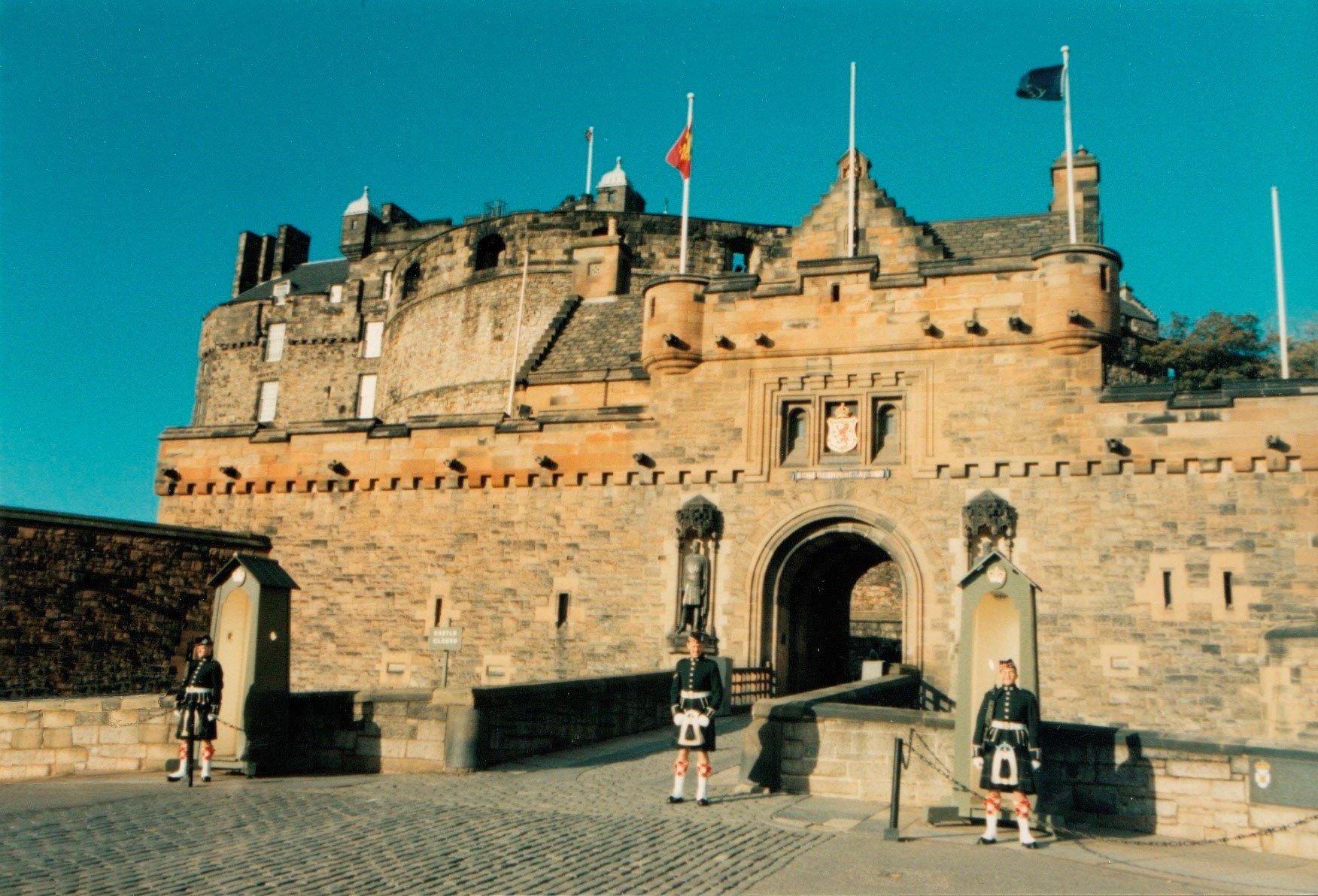 Edinburgh Castle Gatehouse (1989)